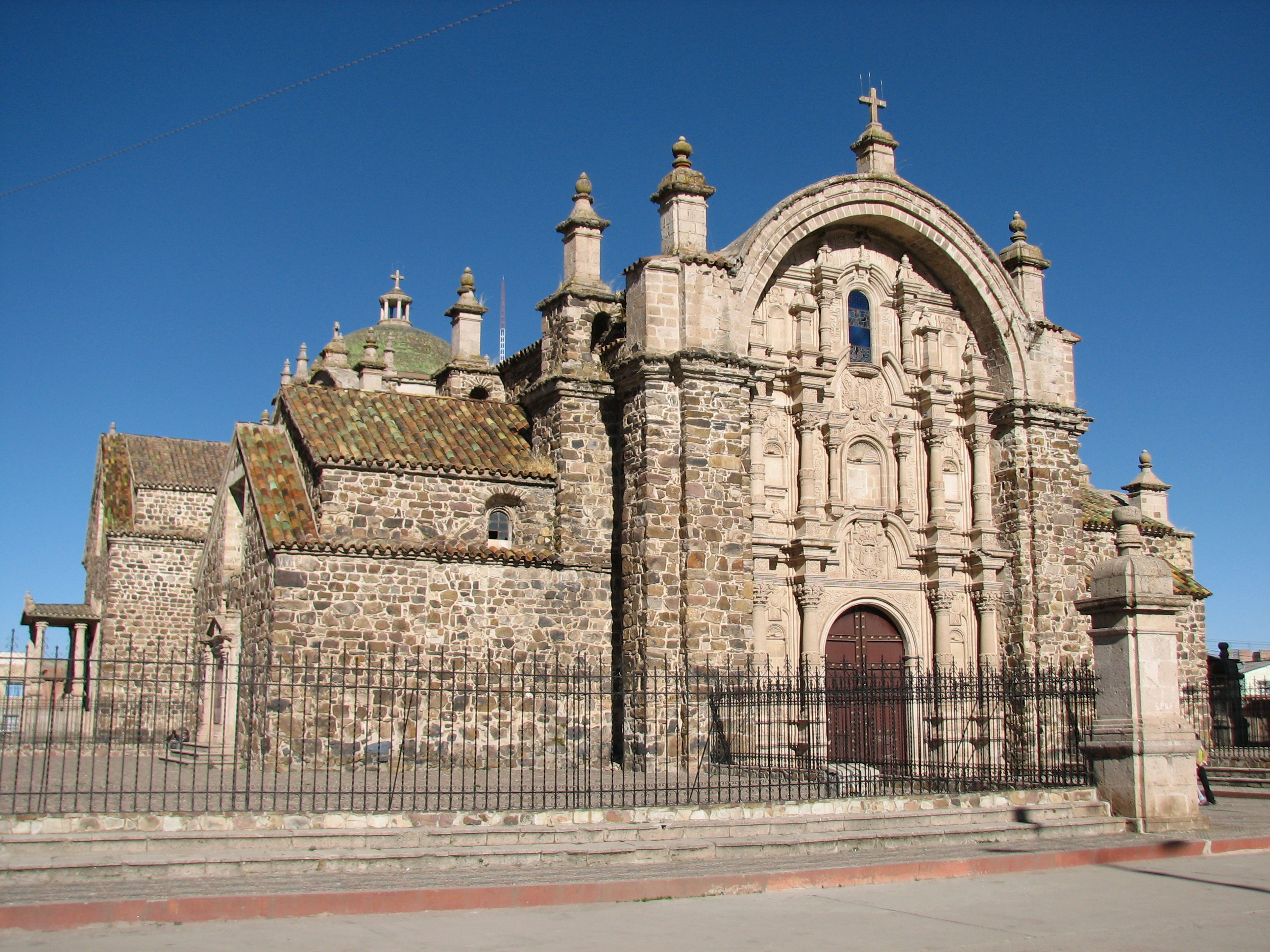 Inmaculada Concepción Church in Lampa, Peru.